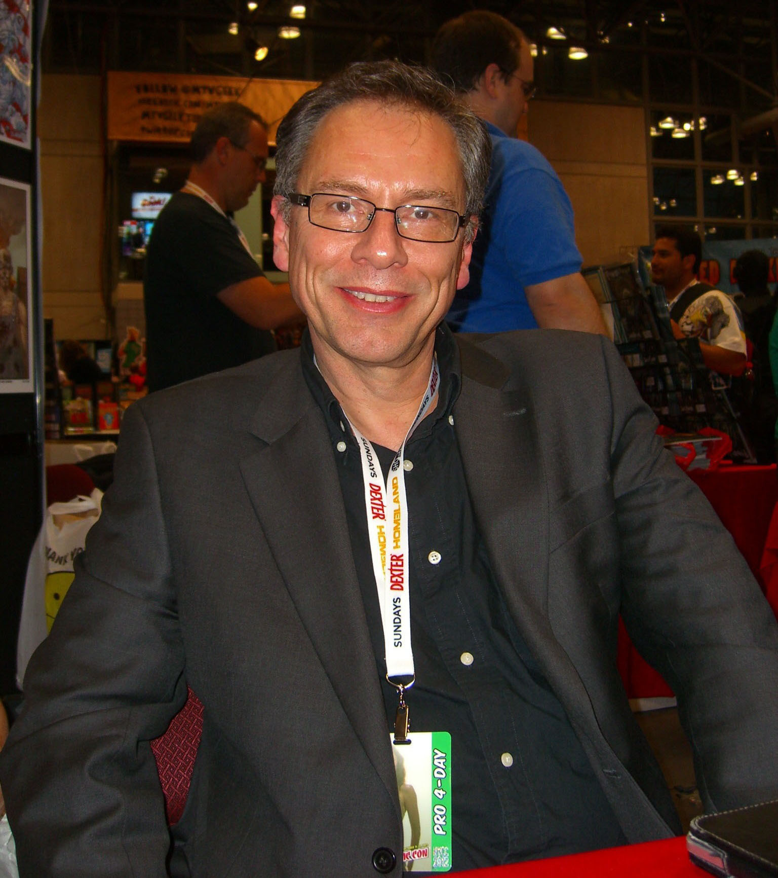 Comics creator David Hine on Day 2 of the 2012 New York Comic Con, Friday October 12, 2012 at the Jacob K. Javits Convention Center in Manhattan. This photo was created by Luigi Novi. It is not in the public domain, and use of this file outside of the licensing terms is a copyright violation.